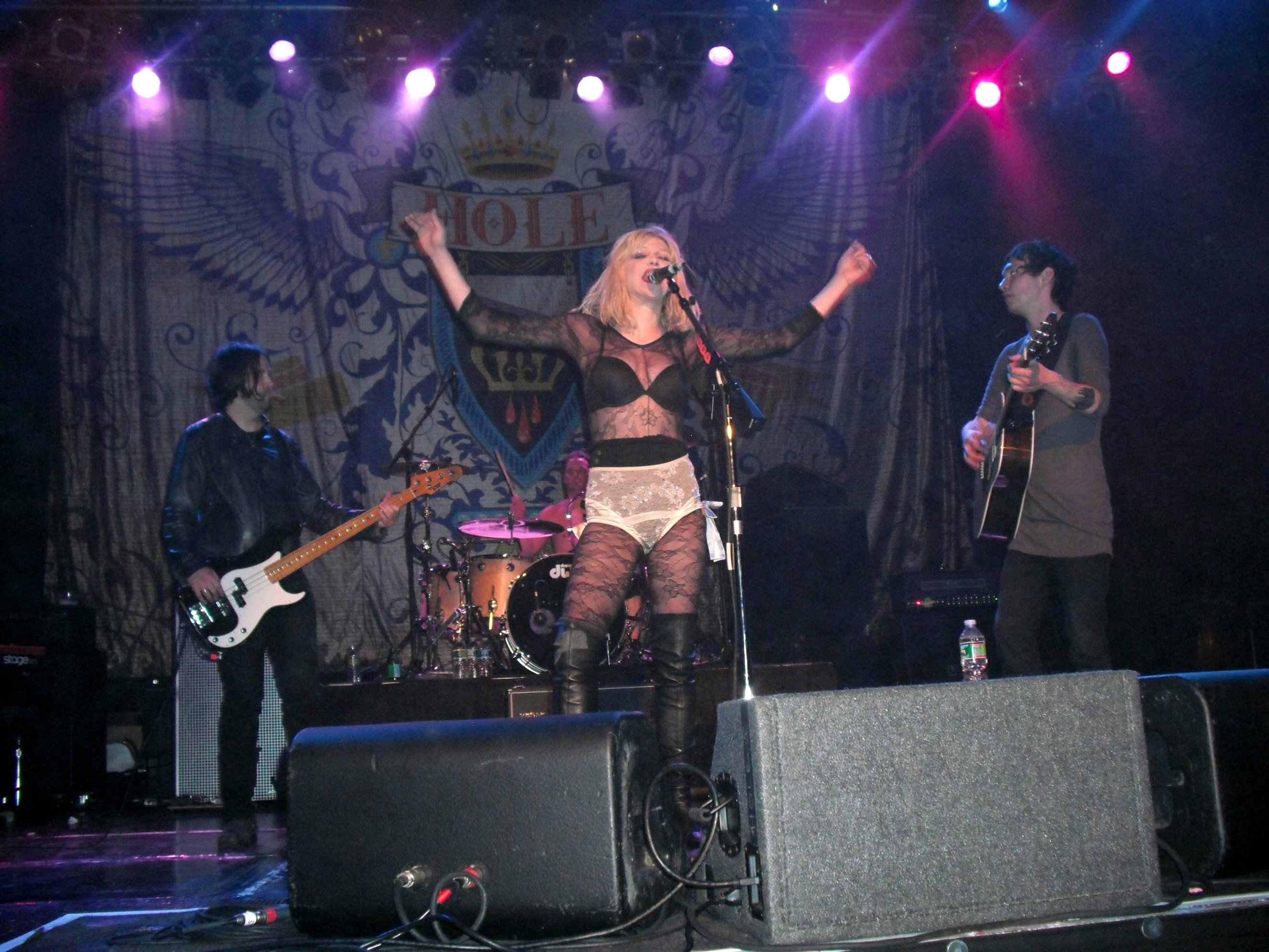 Photos by Ted Van Pelt